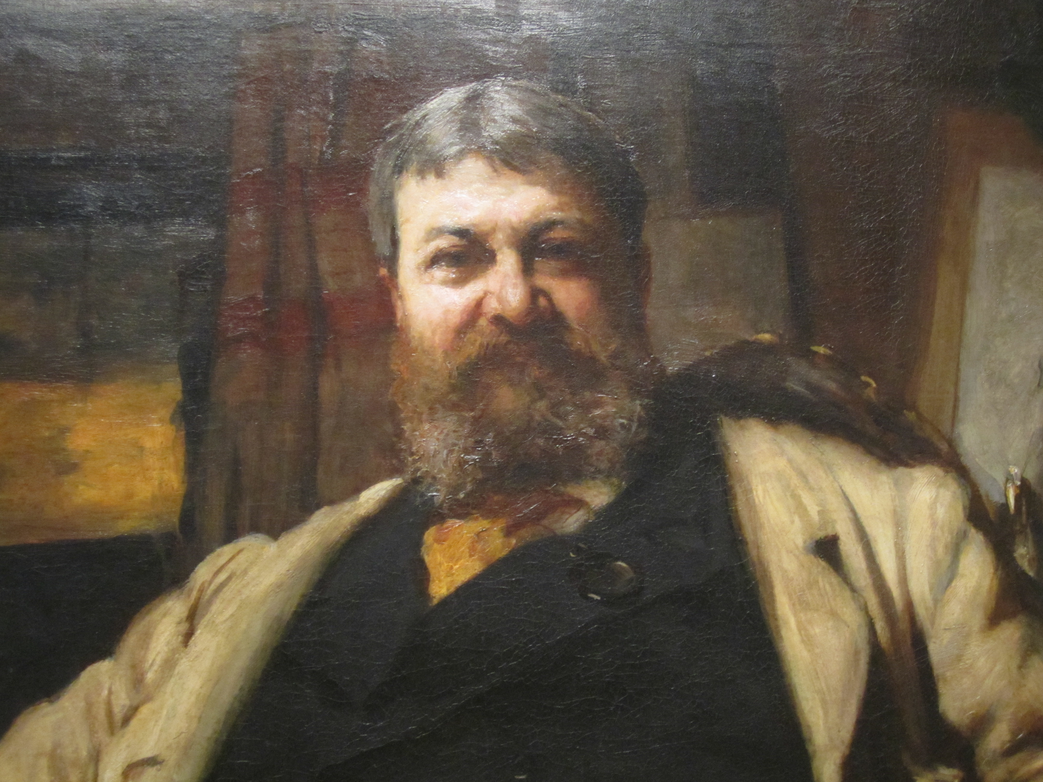 Portrait of Henry Hobson Richardson , architect